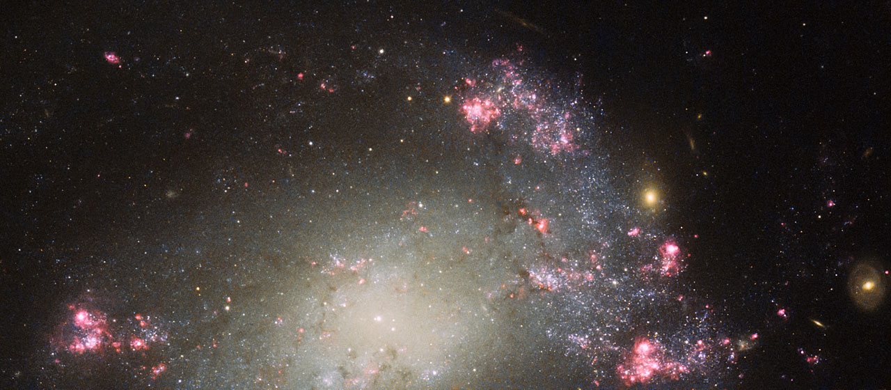 Bursts of pink and red, dark lanes of mottled cosmic dust, and a bright scattering of stars — this NASA/ESA Hubble Space Telescope image shows part of a messy barred spiral galaxy known as NGC 428. It lies approximately 48 million light-years away from Earth in the constellation of Cetus (The Sea Monster). Although a spiral shape is still just about visible in this close-up shot, overall NGC 428’s spiral structure appears to be quite distorted and warped, thought to be a result of a collision between two galaxies. There also appears to be a substantial amount of star formation occurring within NGC 428 — another telltale sign of a merger. When galaxies collide their clouds of gas can merge, creating intense shocks and hot pockets of gas and often triggering new waves of star formation. NGC 428 was discovered by William Herschel in December 1786. More recently a type Ia supernova designated SN2013ct was discovered within the galaxy by Stuart Parker of the BOSS (Backyard Observatory Supernova Search) project in Australia and New Zealand, although it is unfortunately not visible in this image. This image was captured by Hubble’s Advanced Camera for Surveys (ACS) and Wide Field and Planetary Camera 2 (WFPC2). A version of this image was entered into the Hubble’s Hidden Treasures Image Processing competition by contestants Nick Rose and the Flickr user penninecloud.